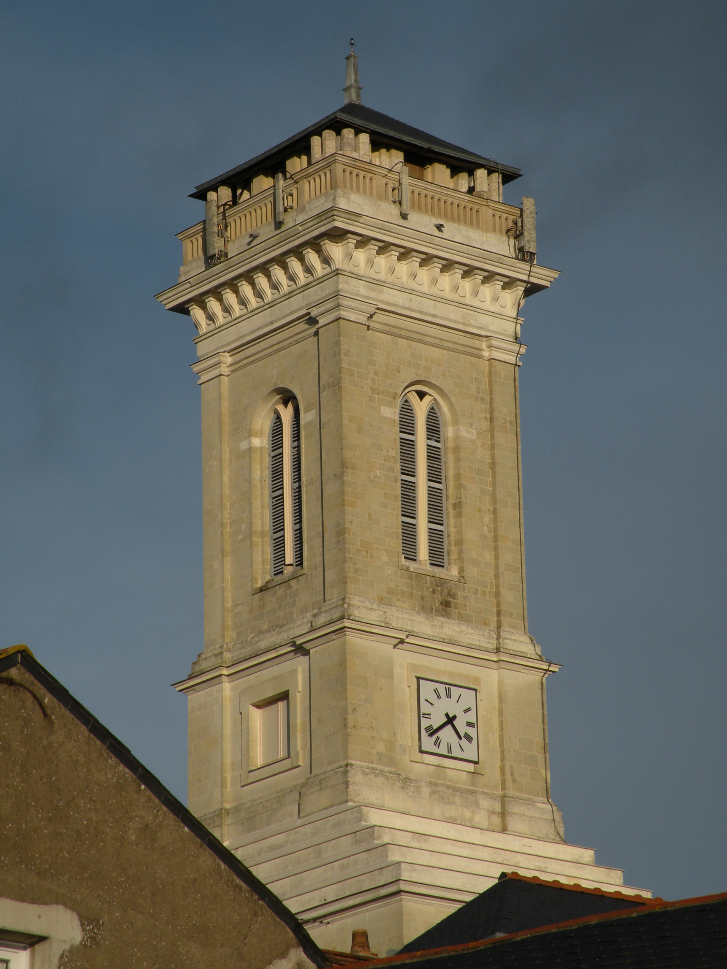 Church of Saint-Étienne-de-Montluc